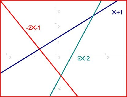 a graph a system of three linear equations